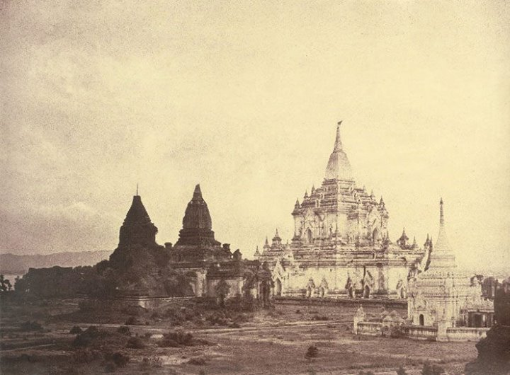 This photograph of the Gawdawpalin Temple is probably the very first ever taken in Bagan. It was taken by Linnaeus Tripe who accompanied the British embassy to King Mindon that year. The Gawdawpalin was built by King Narapatisithu and his son King Htilomino in the early 13th century.